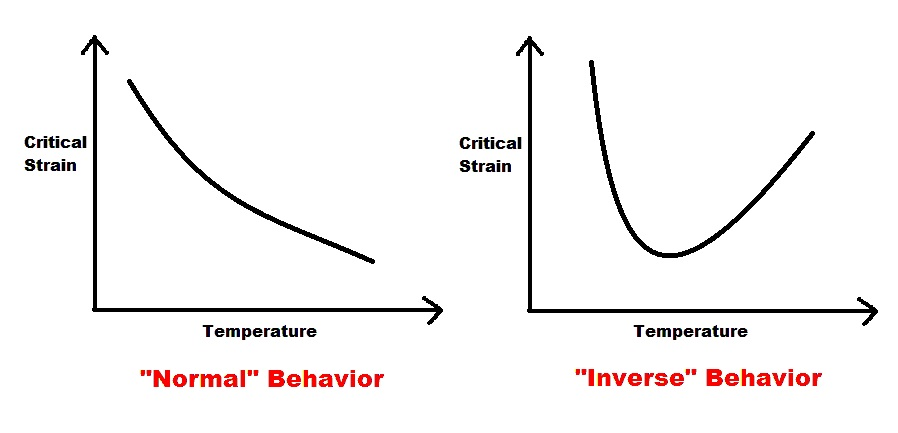 normal vs. inverse relationship for the PLC effect